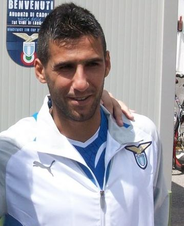 Fabio Firmani at Auronzo di Cadore.